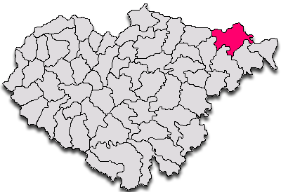 Map Salaj County Romania